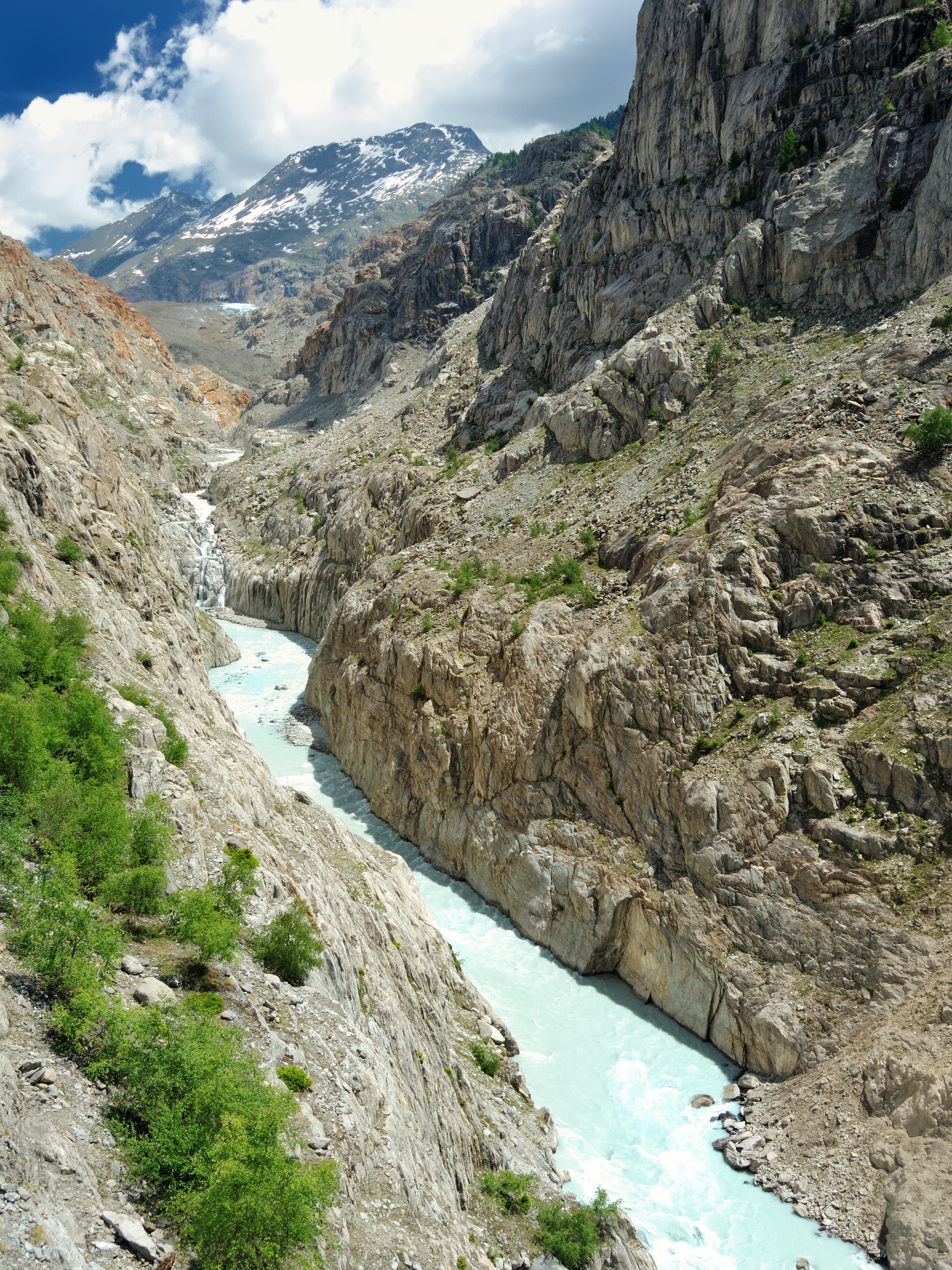 Massa river, Naters-Riederalp (suspension bridge)